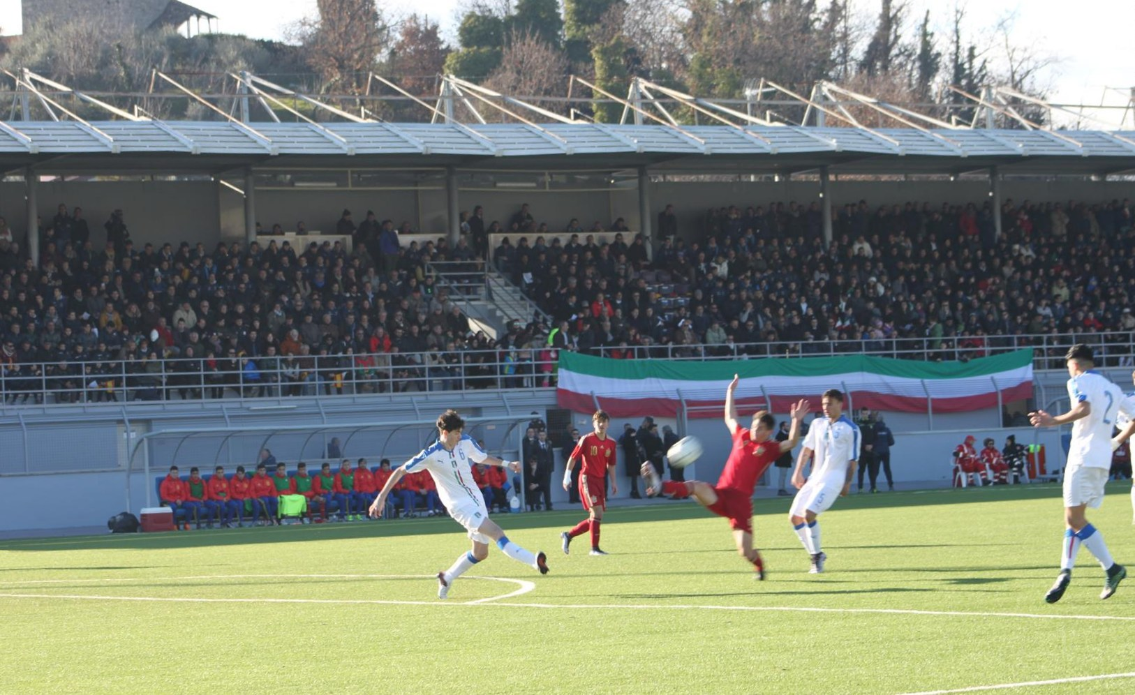 Frosinone Calcio: Cittadella dello Sport training centre in Ferentino. Under 17 Italy vs Span 1-1